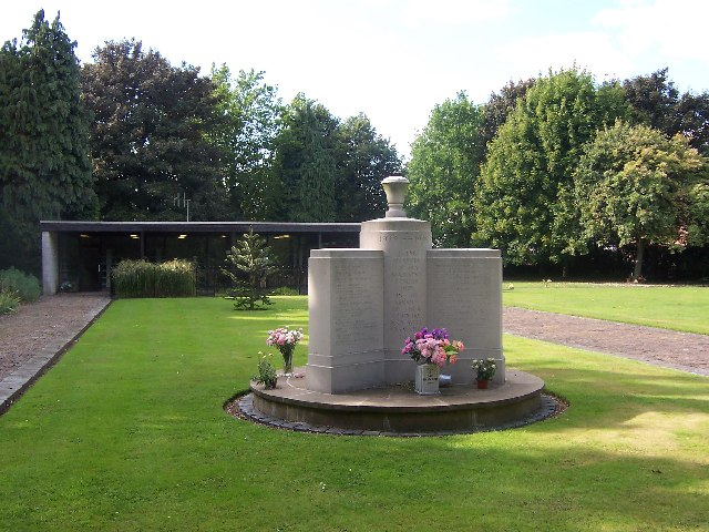 WW2 Memorial to cremated war dead. This is on the site of the original Southampton Crematorium, since moved to accommodate the M27 In the old garden of remembrance is this memorial to servicemen and women who died as a result of enemy action in World War Two, and were cremated here. The low building behind is a columbarium, with shelves bearing caskets of ashes of the deceased.